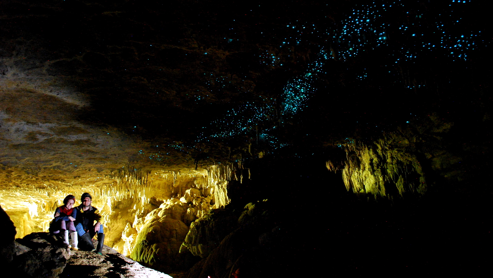 At Green Glow eco-adventures Green Glow was one of our favorite things that my wife and I did while visiting the North Island in December 2011. Paul is very knowledgeable and it was a lot of fun. We brought our consumer-level DSLR and Paul helped us capture some amazing shots. He can capture this same shot for you! He was also helpful with working around our limited timing for the day.